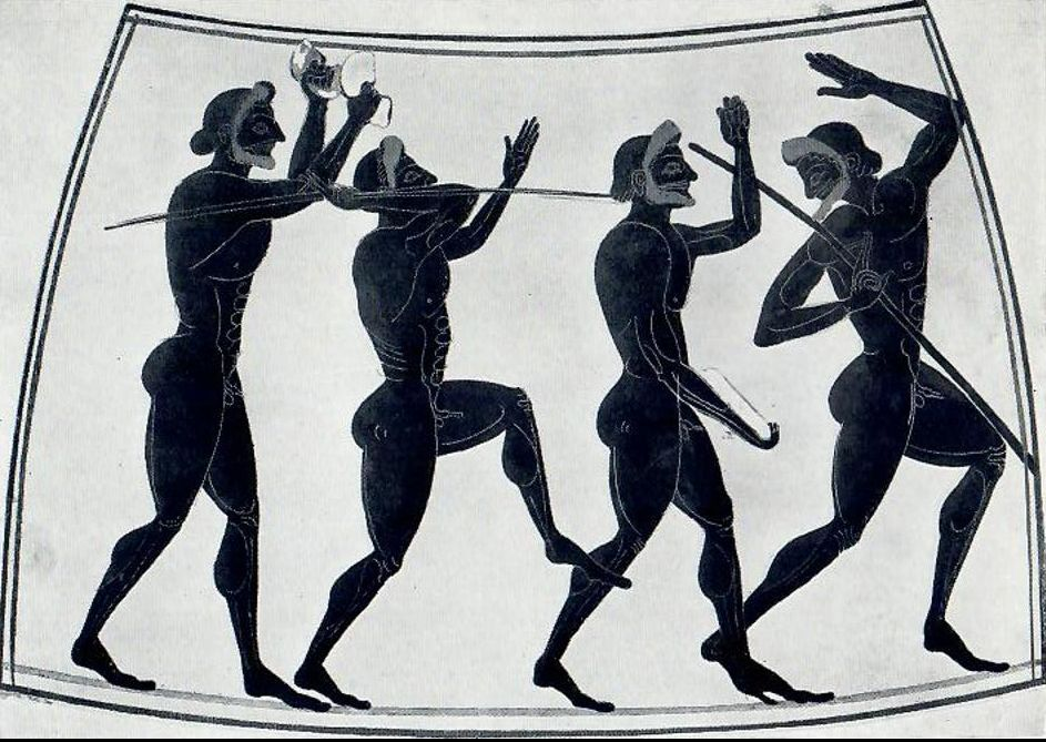 Pentathlon scene from Ancient Greece, featuring two javelin throwers. The first figure holds his javelin at the carry, while the third figure aims with his; the fingering of the amentum is clearly shown on each. Panathenaic amphora, about 525 B.C. British Museum. Image and description source: 'Throwing the Javelin' in Athletics of the Ancient World (1930), Gardiner, E. Norman. Reprinted with corrections, Oxford:Oxford University Press, 1967, p.170, fig. 139.